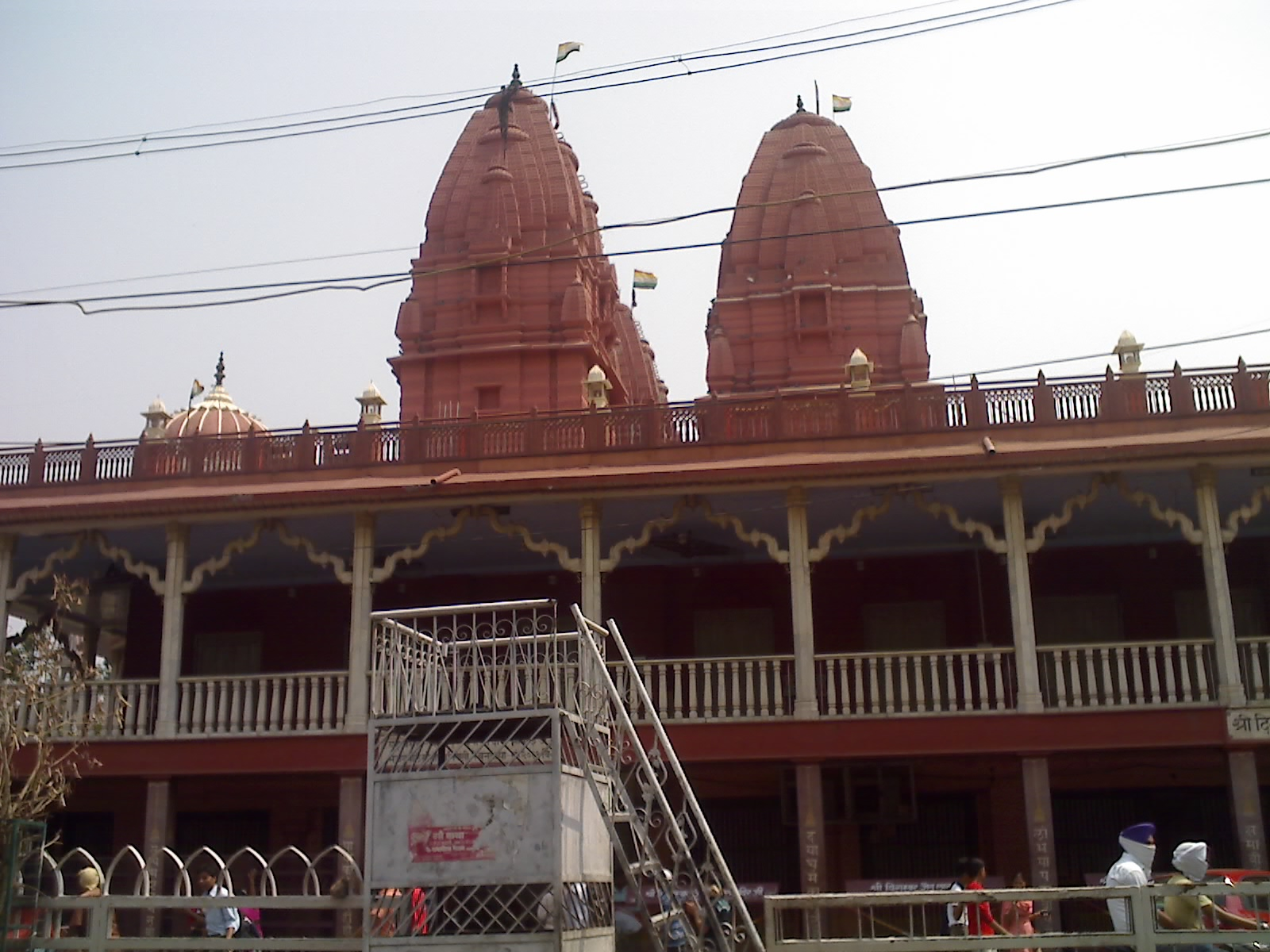 Jain mandir, chandni chowk, delhi